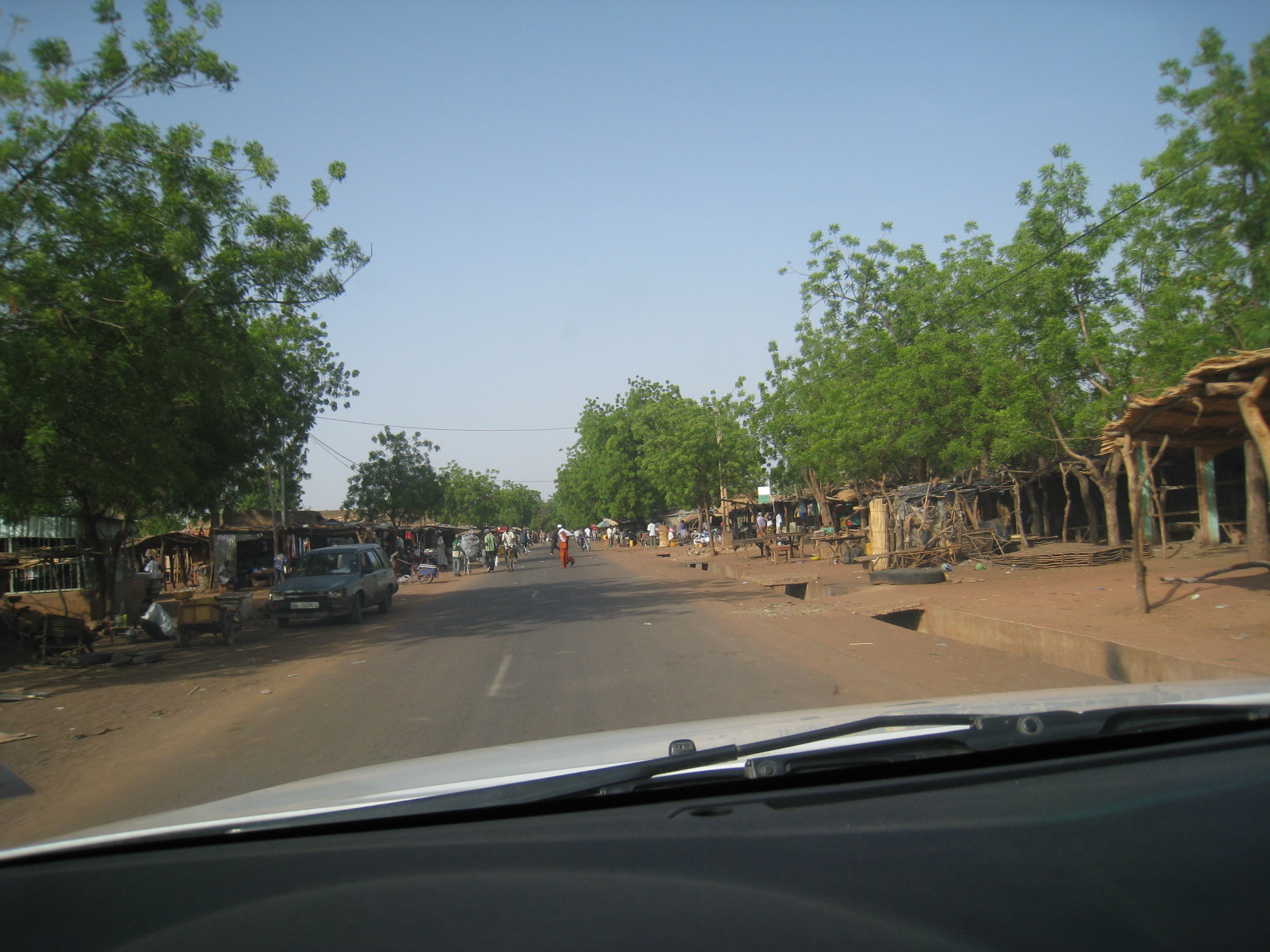 A look down the main street of the town of Torodi, the capital of the commune in which Teppe lies, which is close to the midway point to Teppe from Niamey.